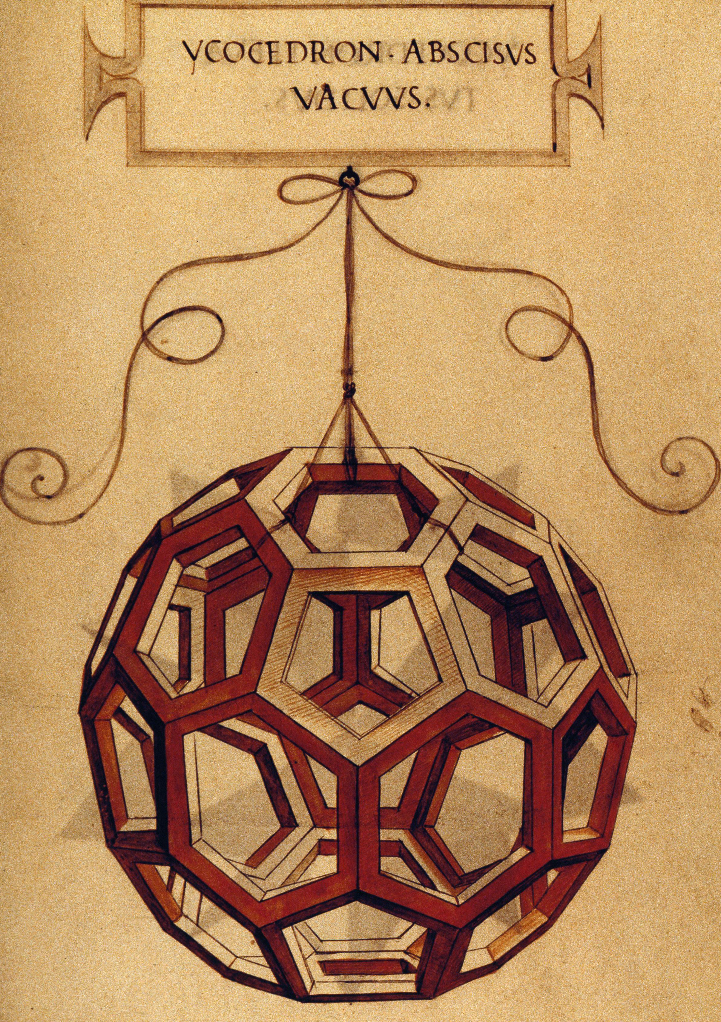 The truncated icosahedron or soccer ball shape, which Leonardo called Ycocedron Abscisus Vacuus. De Divina Proportione written by Luca Pacioli, illustrated in 1509 by Leonardo Da Vinci.